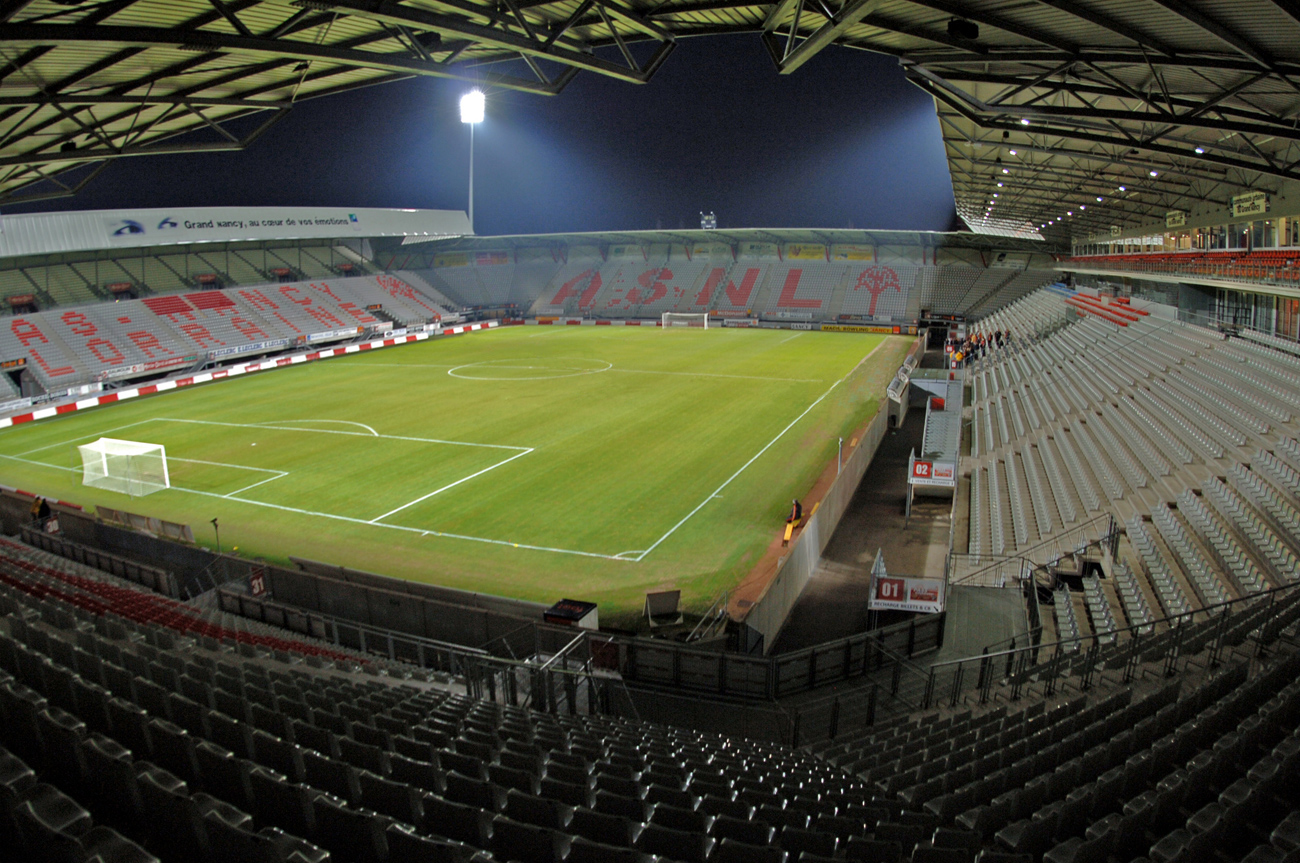 Stade Marcel Picot in Tomblaine (54), France